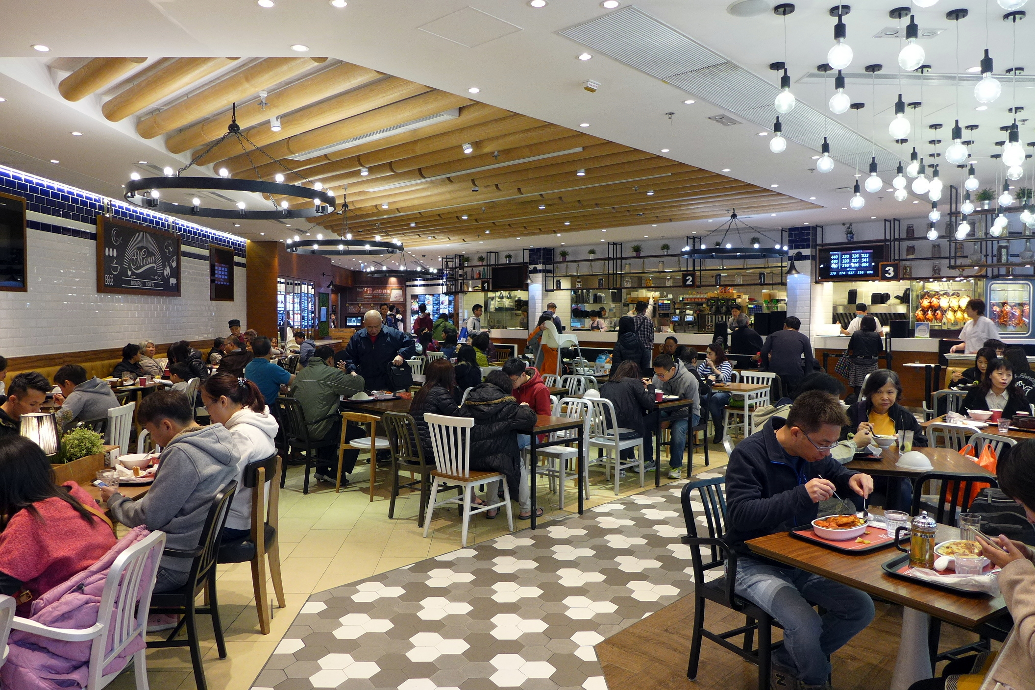 Telford Plaza Maxim Food2 Interior